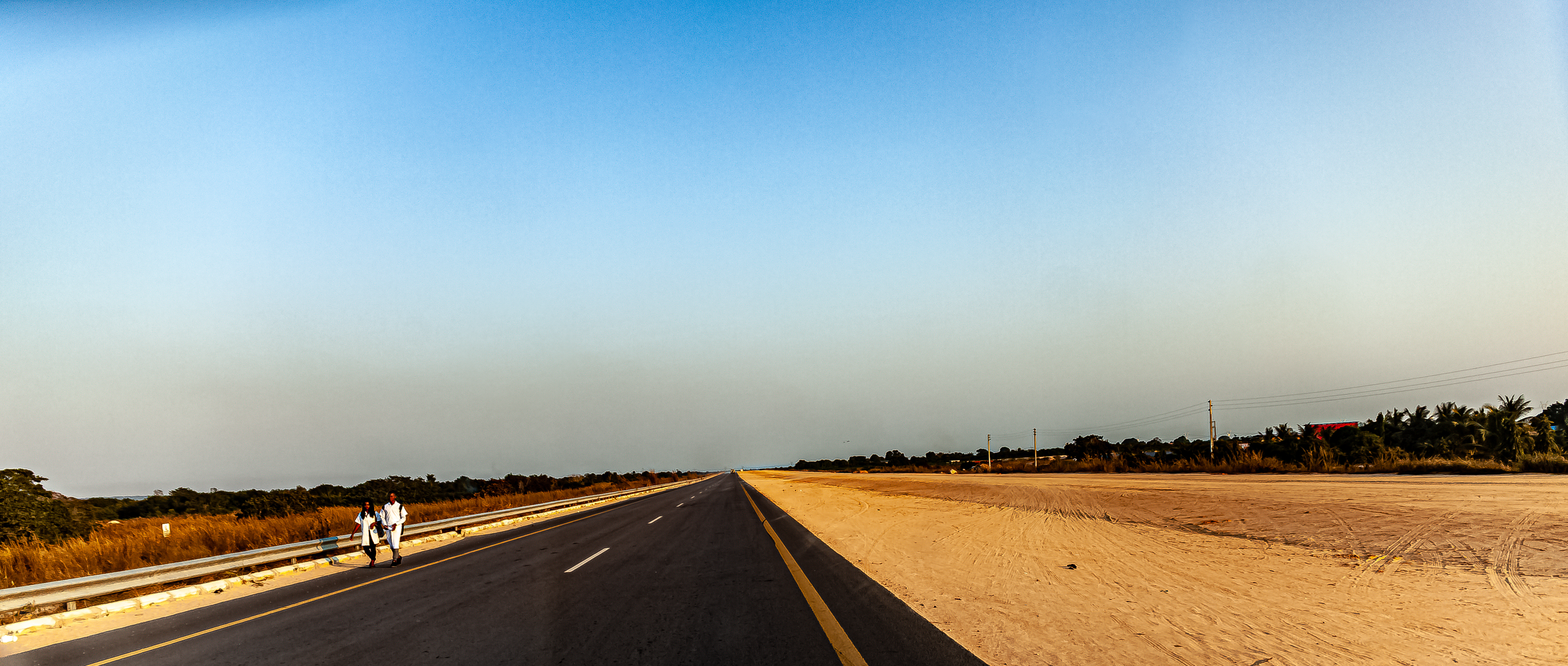 This newly built highway in Angola is going from somewhere to nowhere This is an image with the theme "Africa on the Move or Transport" from: Angola